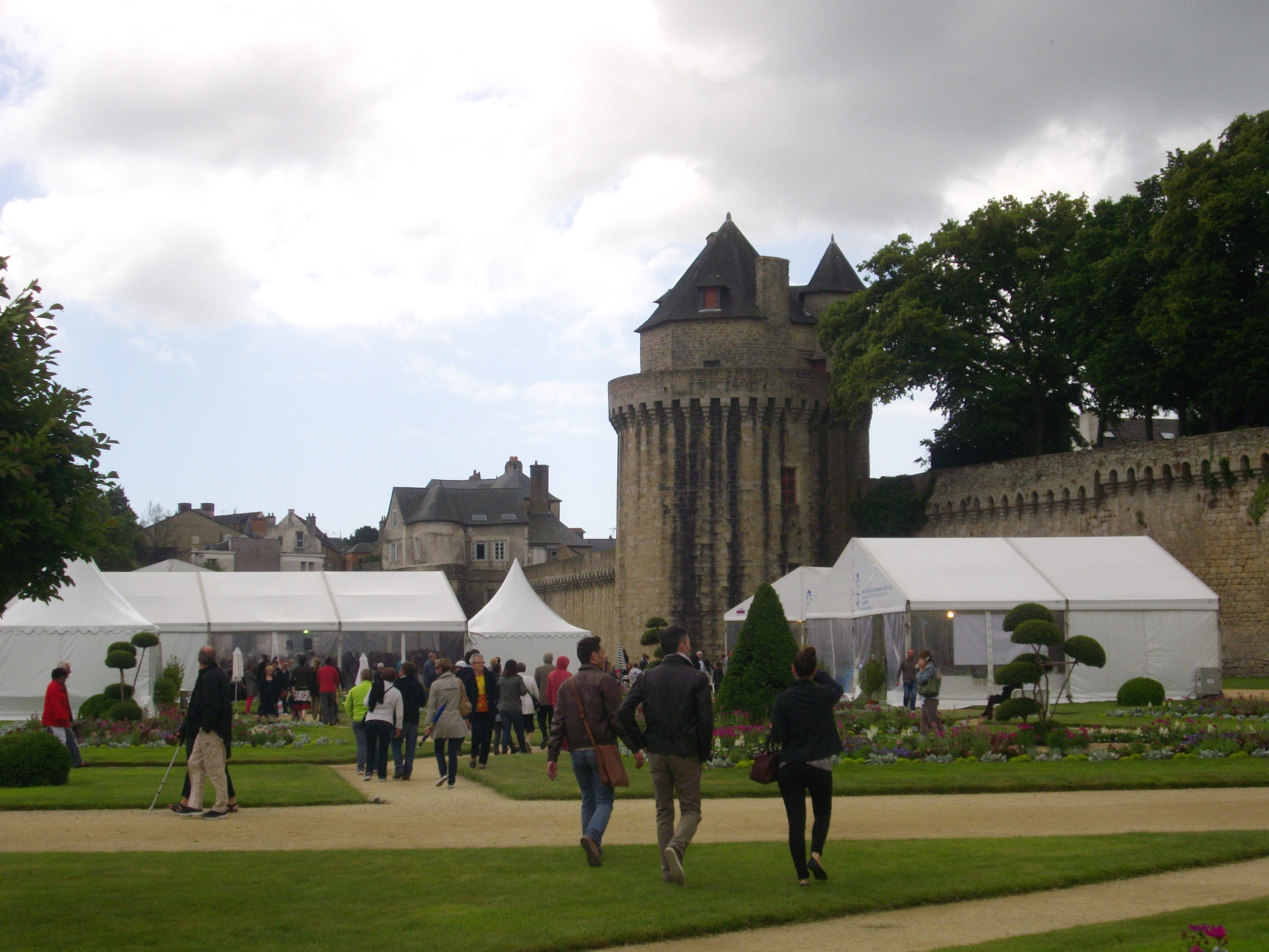 Book fair in Bretagne, in the ramparts' gardens of Vannes (Morbihan, France), 23 June 2013